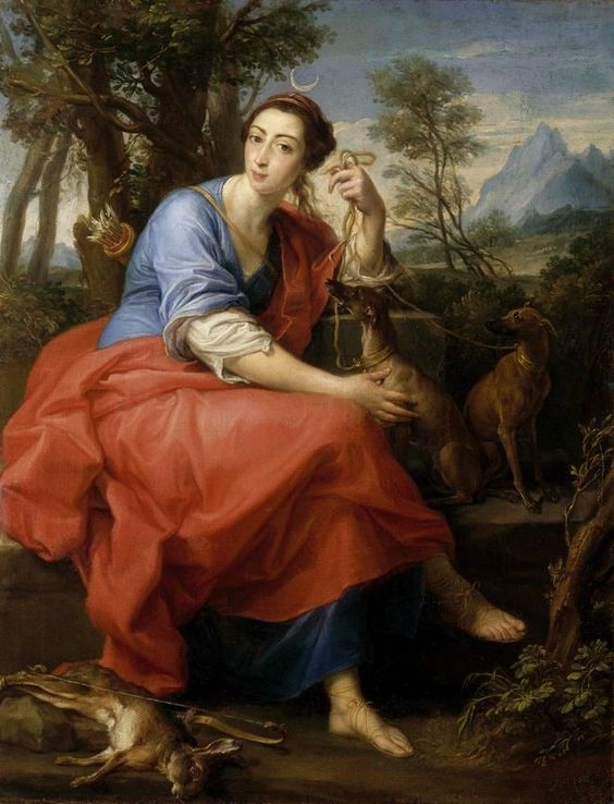 Portrait of the famous singer (soprano) Caterina Gabrielli (1730—1796) as Diana